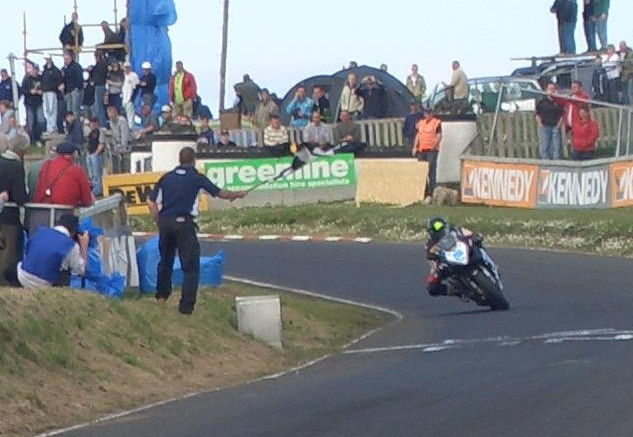 Bruce Anstey winning the second 600cc Supersport race at the 2007 North West 200